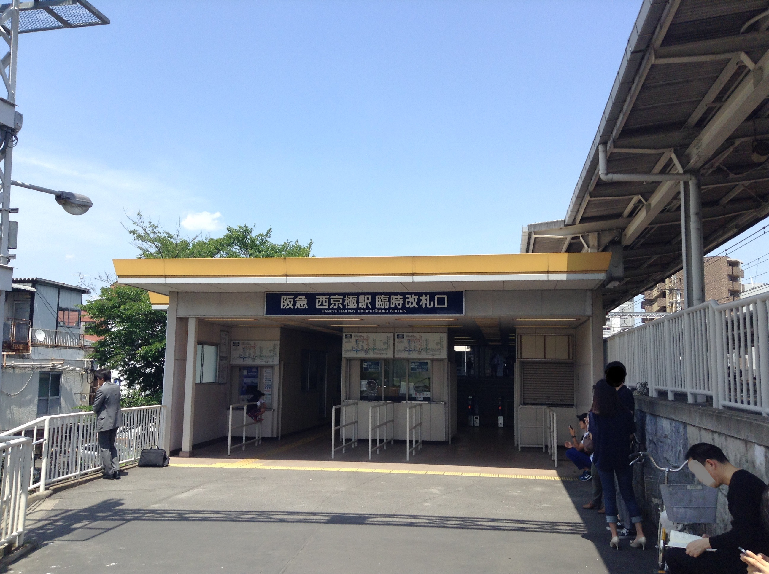 Hankyu Kyoto Main Line Nishikyogoku station